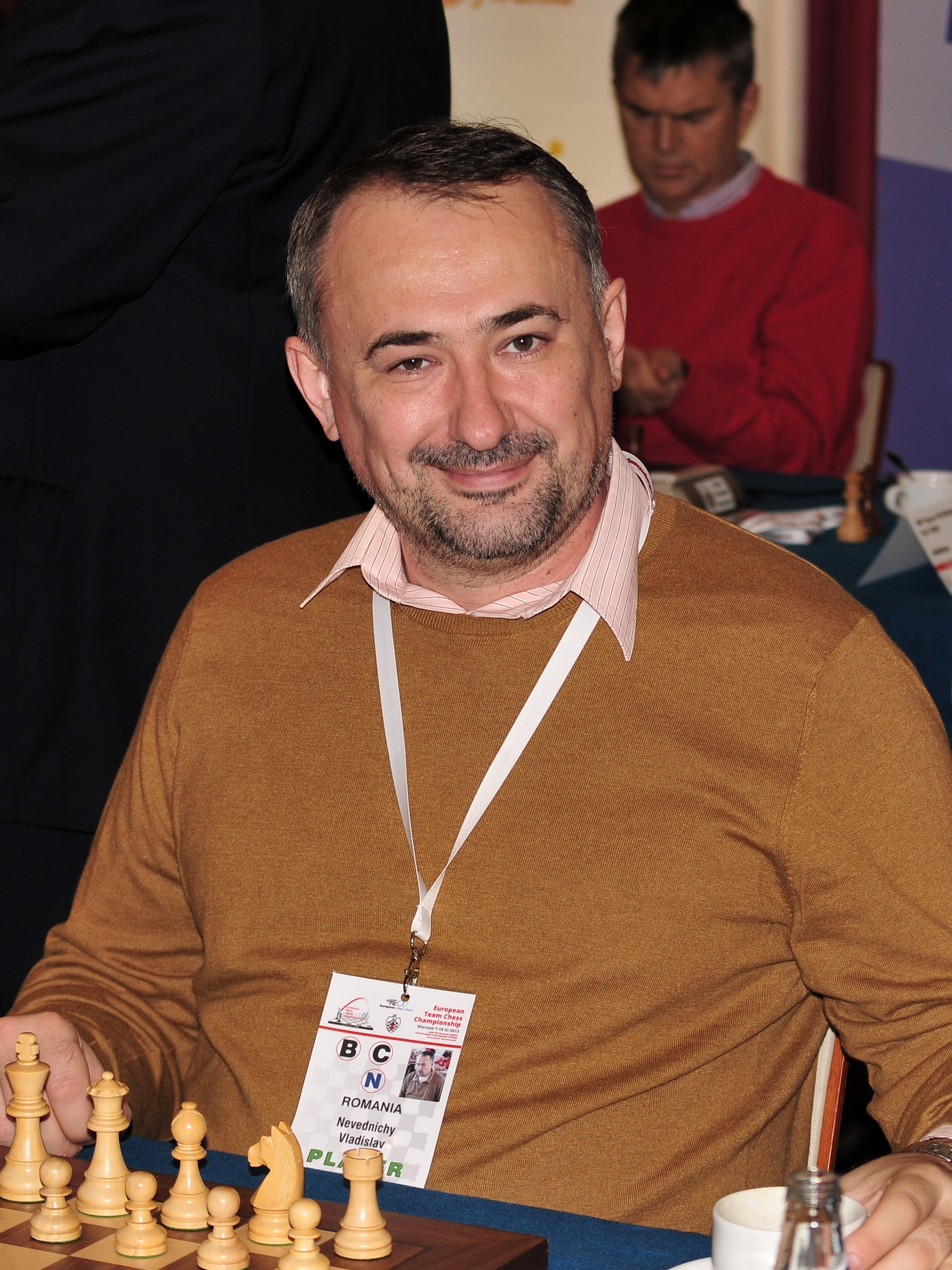 GM Vladislav Nevednichy, European Chess Team Championship Warsaw 2013